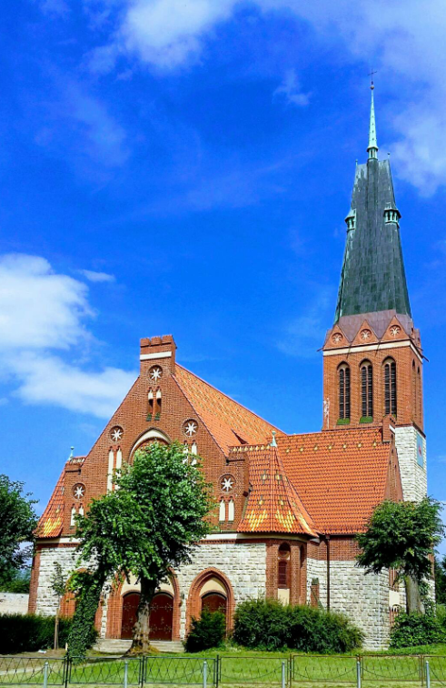 Church Potsdam-Bornim